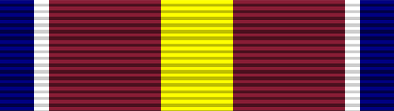 US Public Health Service Distinguished Service Medal ribbon